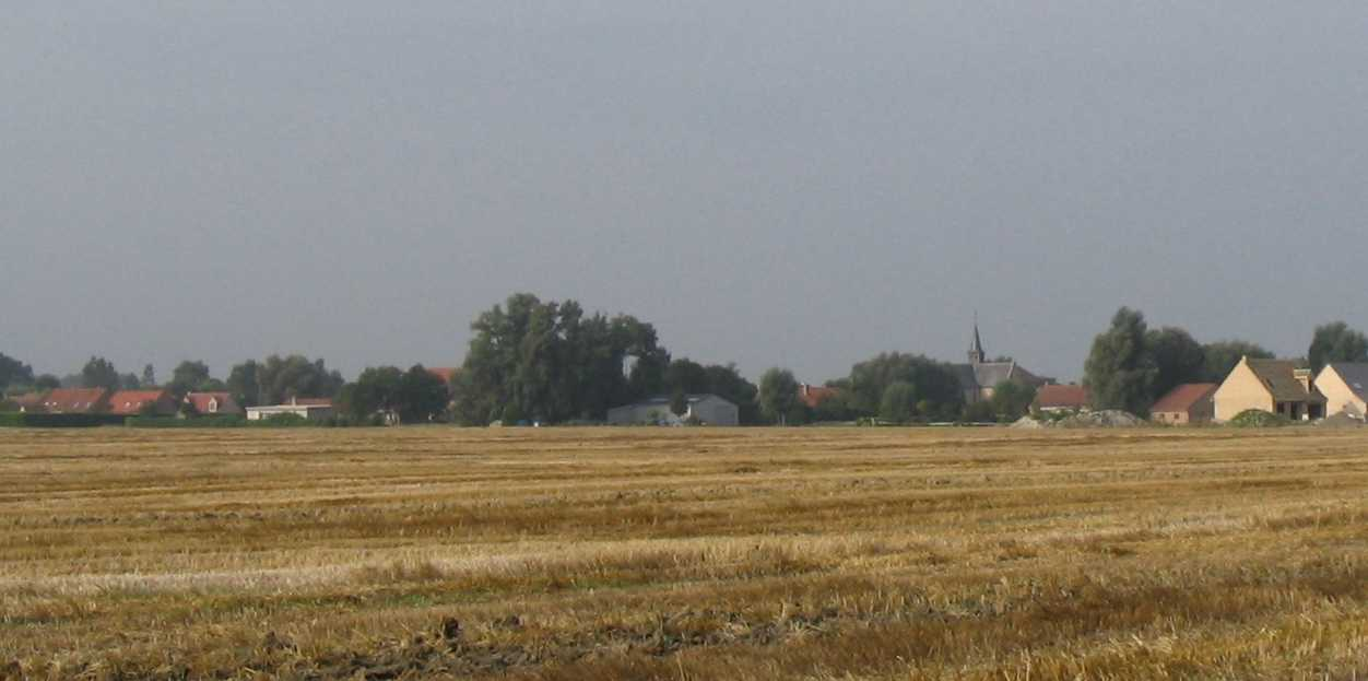 Craywick. Par Antoine.